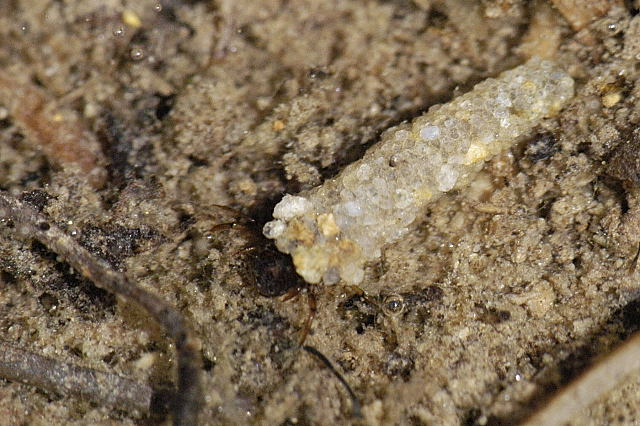 Picture taken in Commanster, Belgian High Ardennes . Species: Sericostoma personatum larva